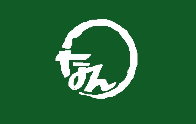 Flag of Tsunan Niigata